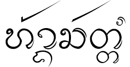 Lanna script – Hang Chat is a district (amphoe) in the western part of Lampang Province, northern Thailand.